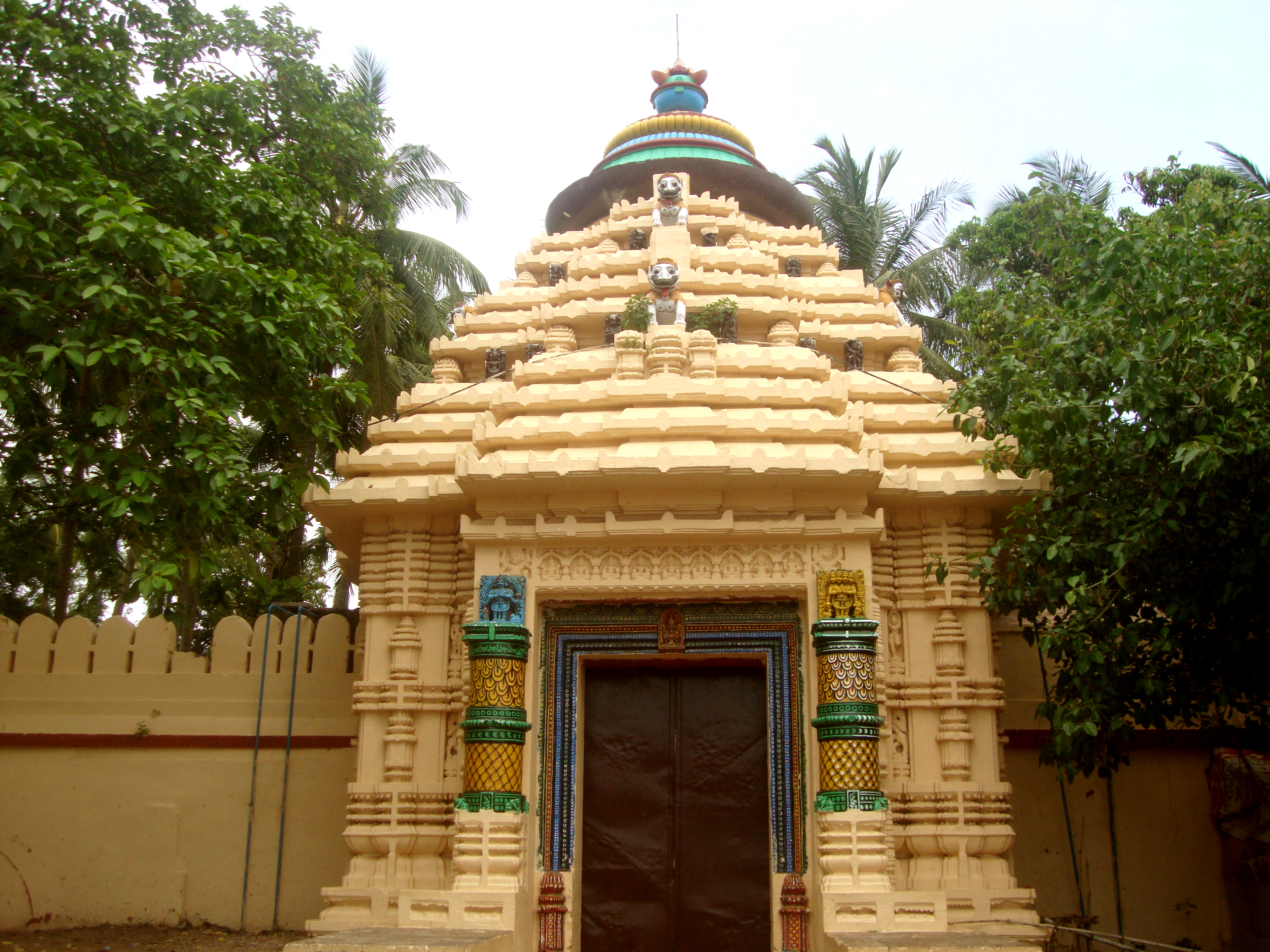 gundicha temple puri